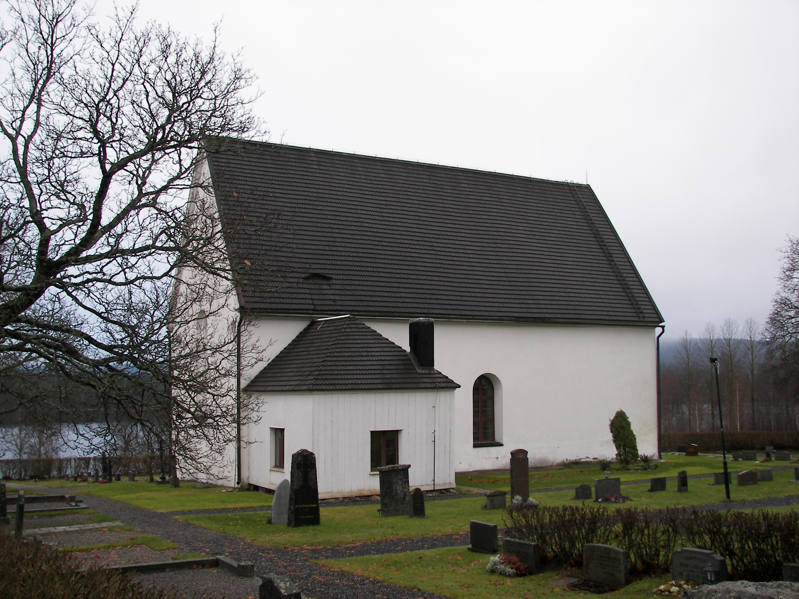 Skog church from northeast.